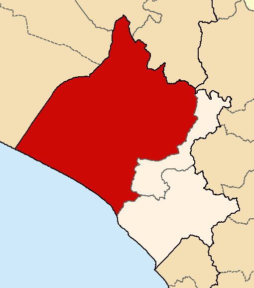 Location of the province Lambayeque in the Lambayeque region in Peru (Map)